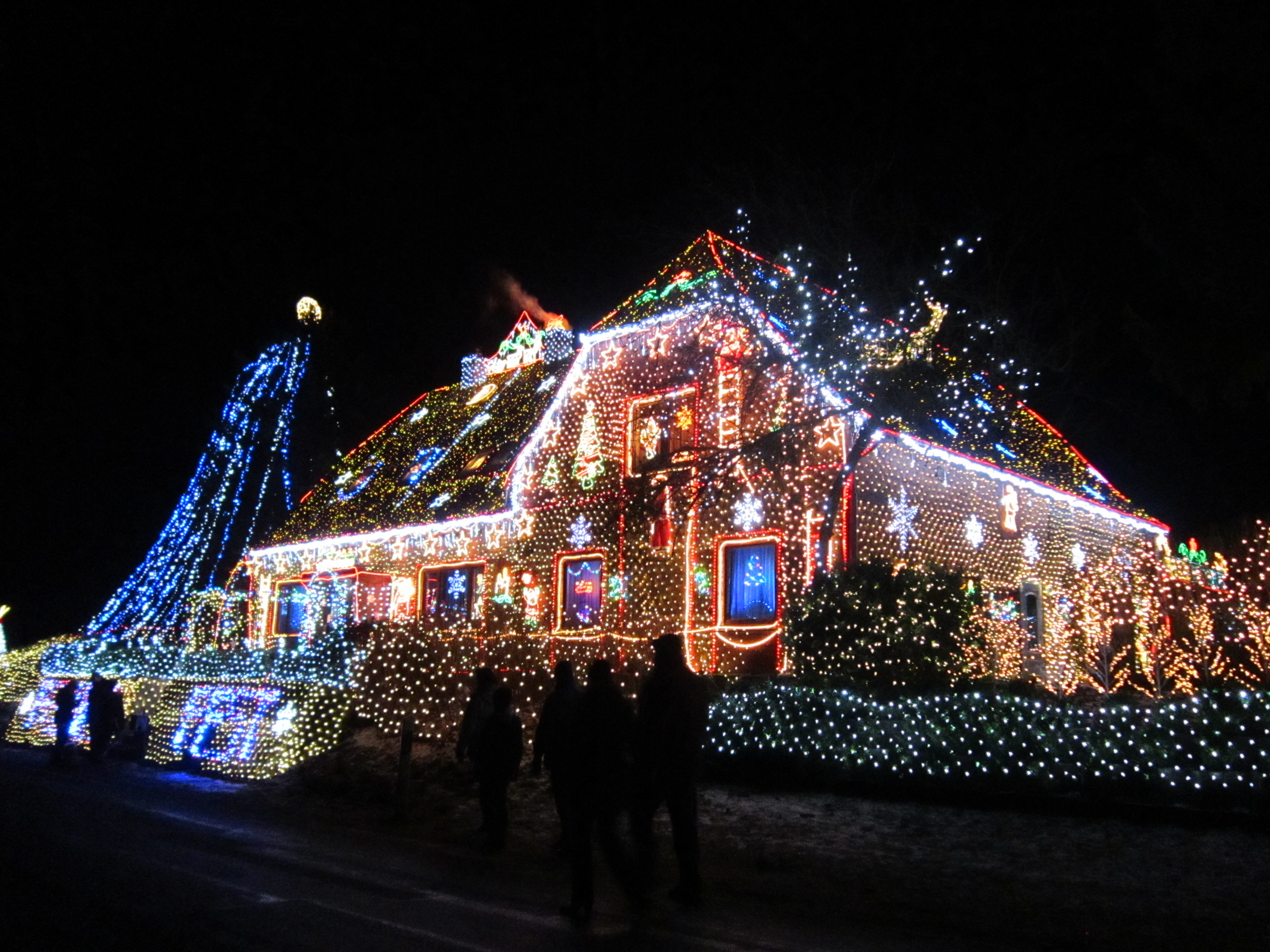 Christmas house with 420000 lights in Calle (Landkreis Nienburg, Lower Saxony), house owner Rolf Vogt